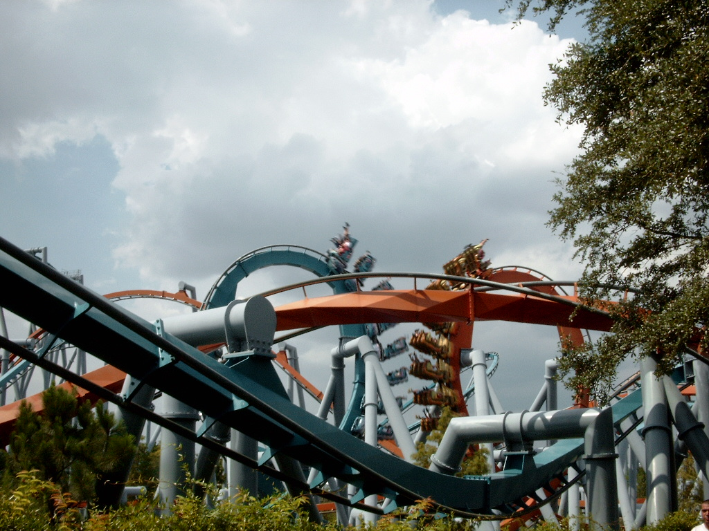 Duelling Dragons, Islands of Adventure, Florida